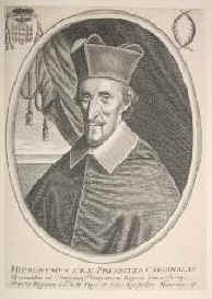 Engraved portrait of Cardinal Girolamo Grimaldi Cavalleroni titled "Monsignor goevernatore di Roma."